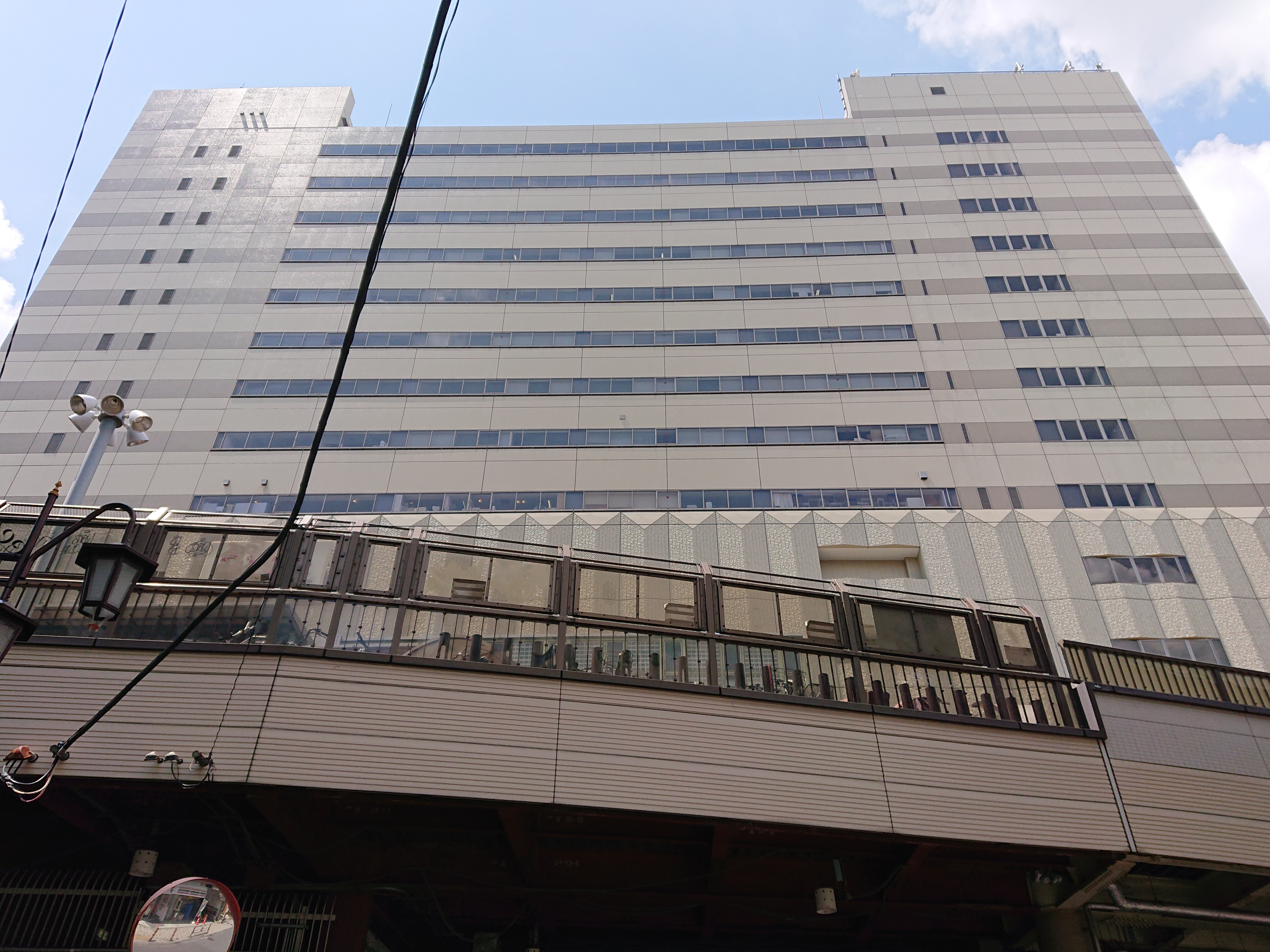 JR Ebisu Building, at 1-5-5, Ebisuminami, Shibuya, Tokyo, Japan